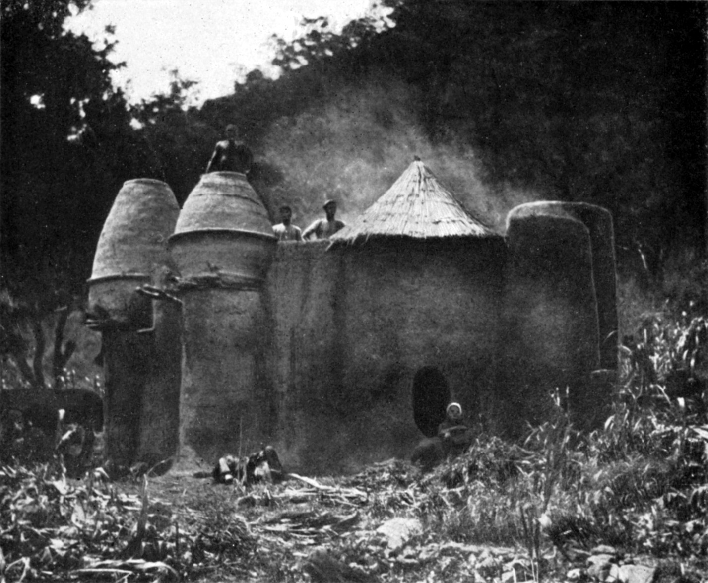 Tamberma-castles of the Somba (clay).